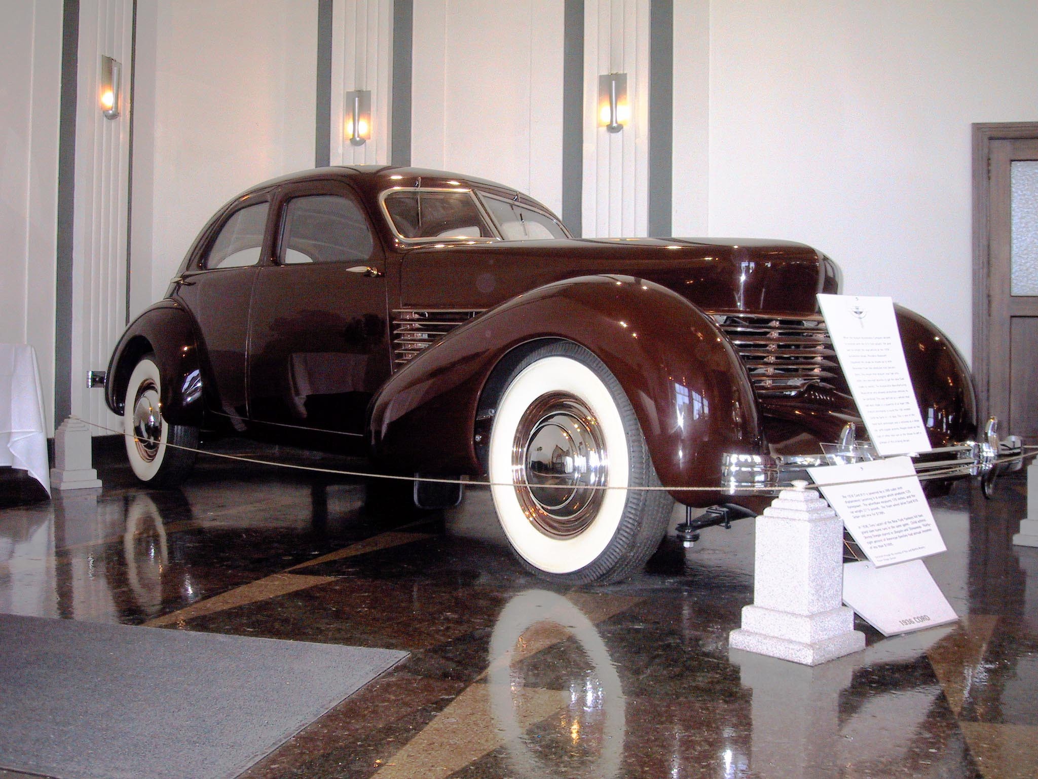 Cord 810